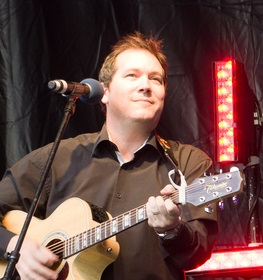 Donegal Live – Dún na nGall Beo (Iveagh Gardens). Today at Iveagh Gardens live music, song and dance was on offer for all to enjoy from 12.00noon – 6.00pm. I was there between 3pm and 4pm and the attendance was not nearly as good as it should have been … maybe the security restrictions resulting from the Queen's visit followed by Obama's visit had a negative impact. A number of Donegal artists performed throughout. Moya Brennan, Mickey Joe Harte, Boxtie, The Perfect Mix and many more with 'THE HIGH KINGS as the headline act. Up to twenty tourism sectors were represented to showcase the many quality attractions, activities, events and hospitality options that County Donegal has to offer including: Equestrian, Golf Clubs, Adventure Sports, Attractions, Islands, Gaeltacht & Irish Colleges, Self Catering, Hotels, B&B, Hostels, Marine Tourism/Angling, Tour Donegal, Festivals, Events & Theatre, Hill Walking, Retail, Guesthouse, Getting to Donegal and Crafts. This year Donegal Food Coast provided samples of the best in Donegal cuisine supported by Donegal County Enterprise Board. Performers: The Donegal Tenors Moya Brennan (Clannad) Kintra The High Kings Pat Gallagher and Band Perfect Mix & Ragus dancers Johnny Gallagher and Boxtie Ardara Set Dancers